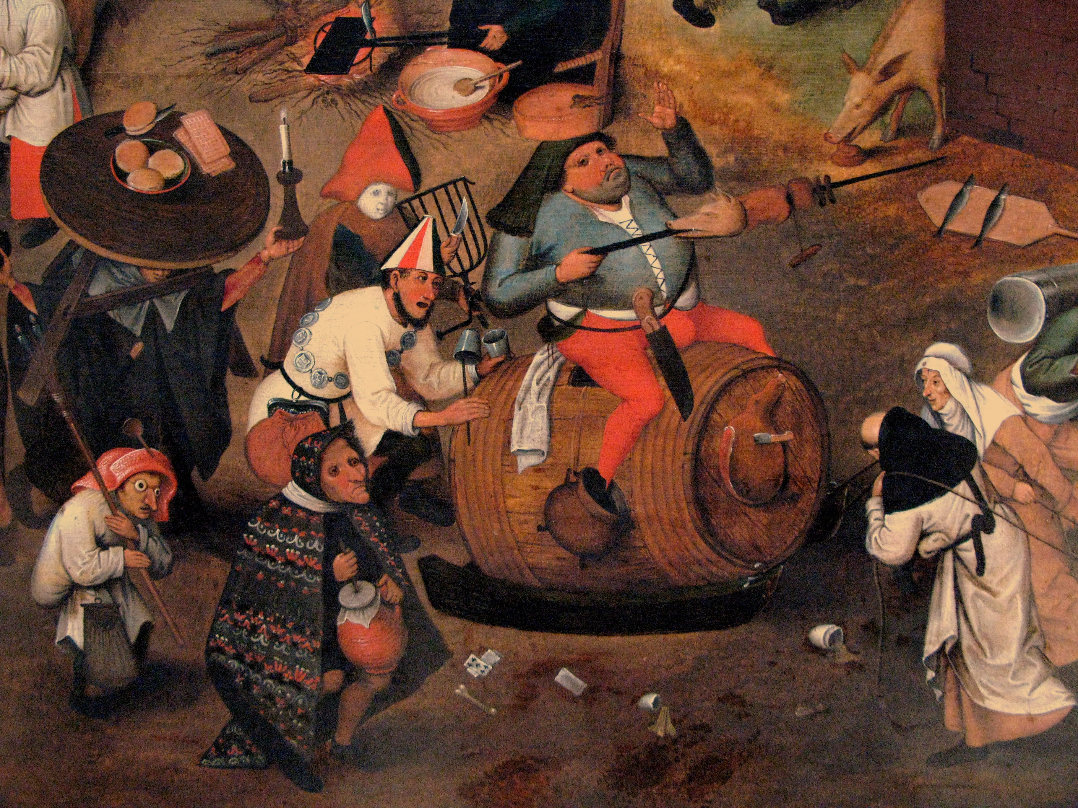 Battle of Carnival and Lent